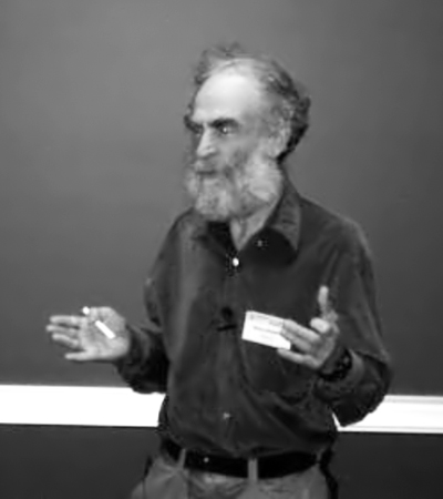 Mikhail Gromov at the IHES, 2007